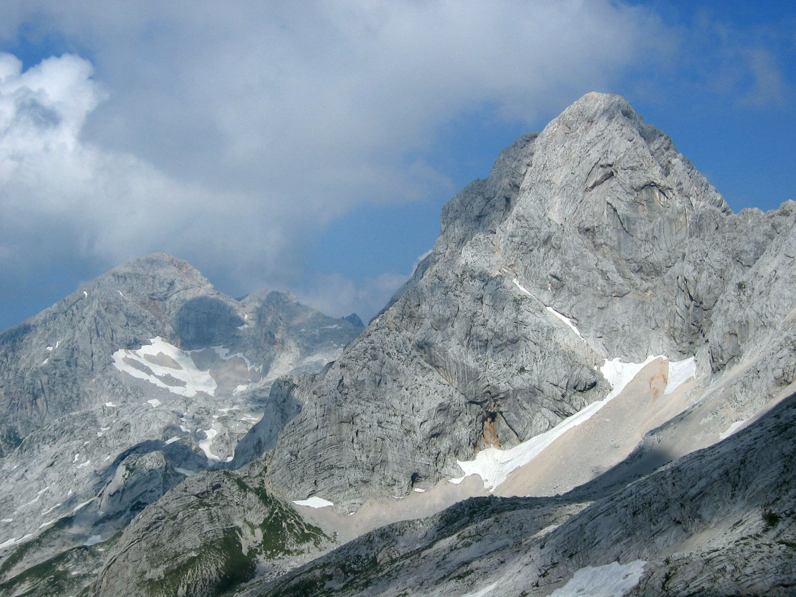 Grintovec (left, background) and Skuta (right, foreground) in the Kamniske Alpe, Slovenia